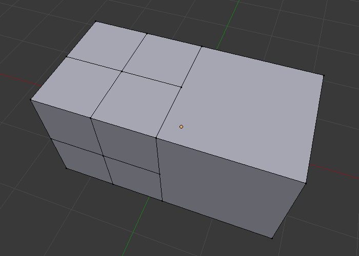 This is a screenshot of T-vertices in Blender, created by joining a subdivided part with a non-subdivided part. Note that it is not possible to tell whether the vertices are T-vertices based on this screenshot alone - if the vertices were part of the rectangular faces on the right, these wouldn't be T-vertices.